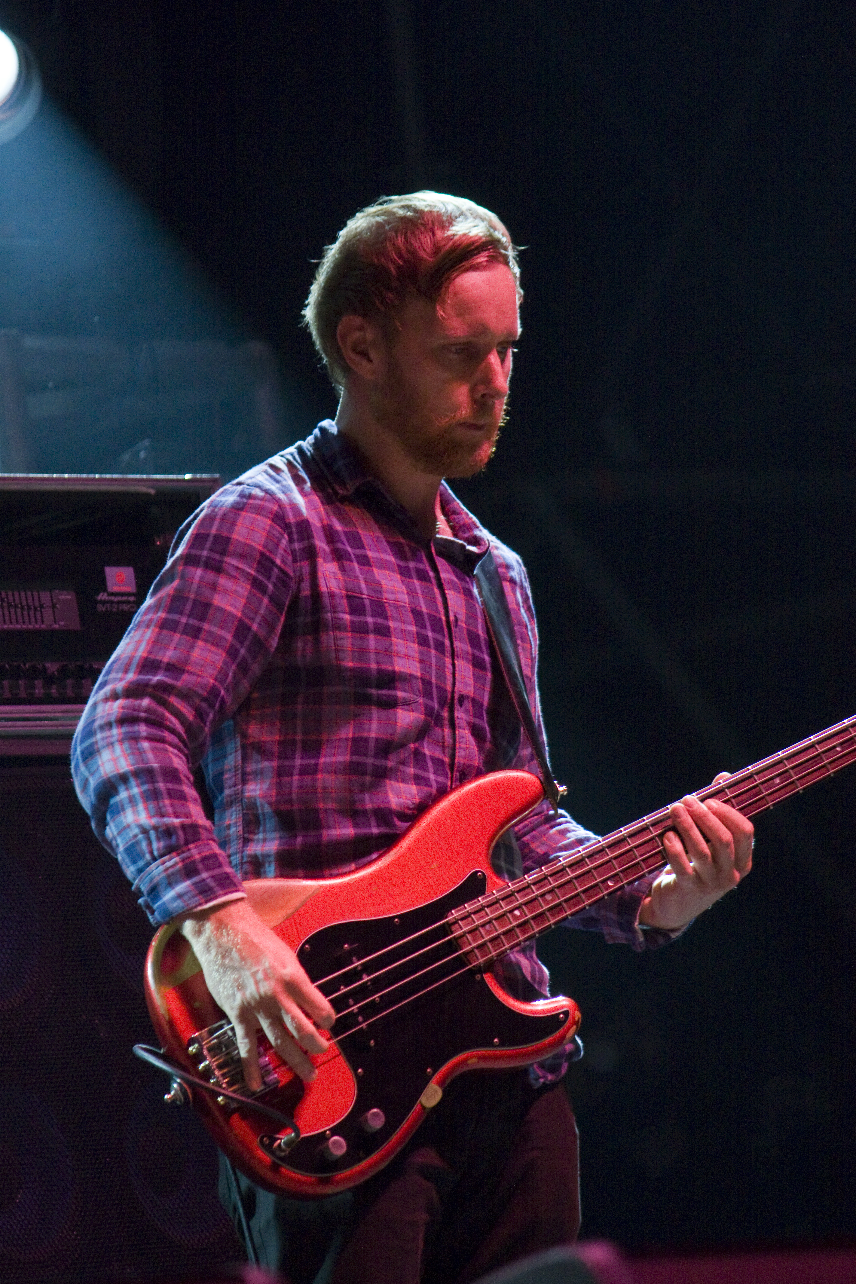 Nate Mendel with the band Sunny Day Real Estate at the Primavera Sound Festival 2010.